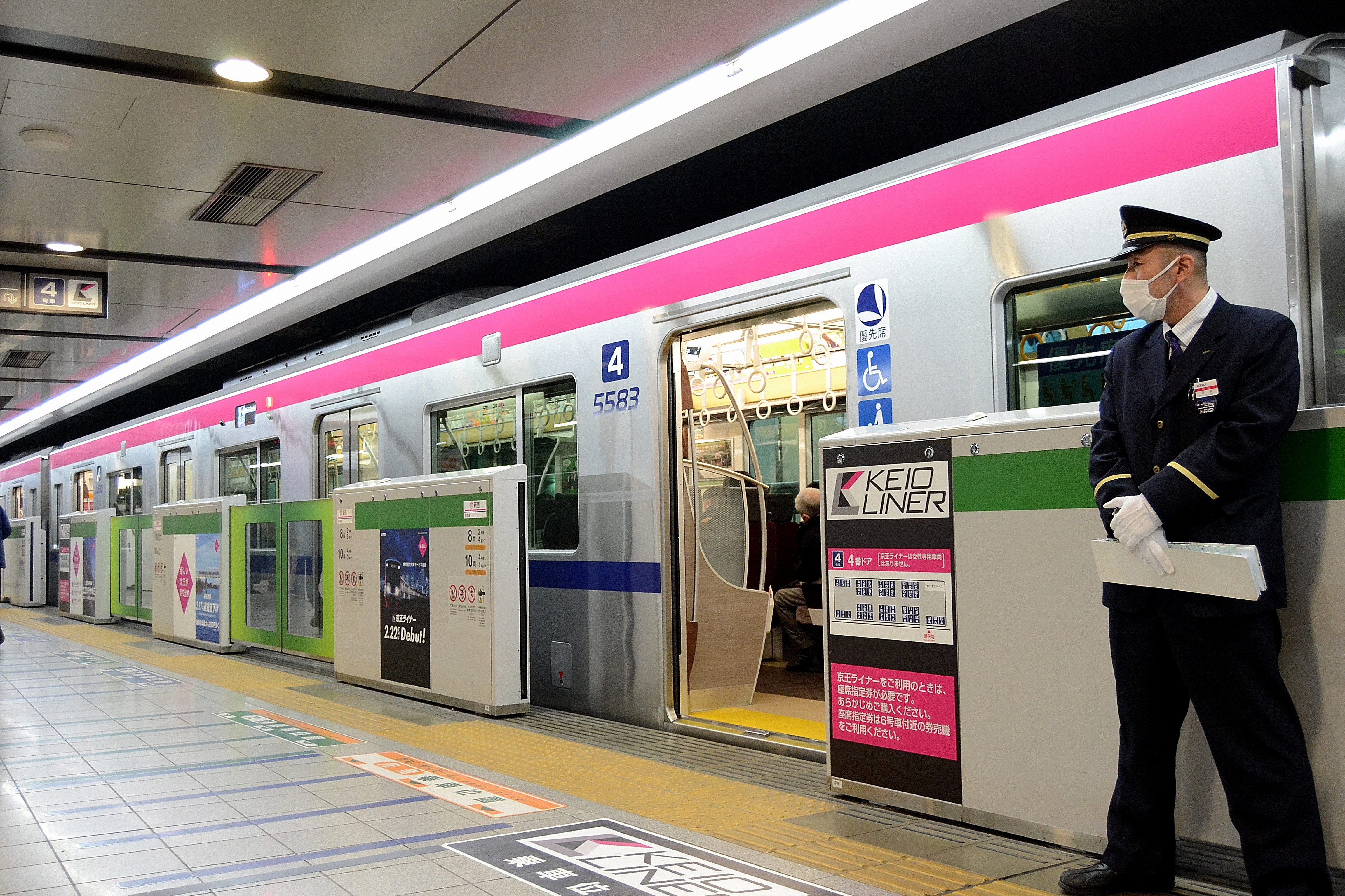 Keio 5000 series EMU set 5733 at Shinjuku Station waiting to depart on a reserved-seat Keio Liner service